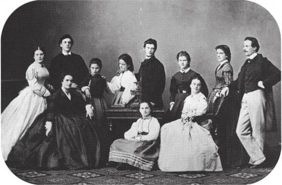 From left to right- Fine, Karl (Ludwig’s father), Anna, Milly, Lydia, Louis, Clothilde, Clara, Marie, Bertha and Paul